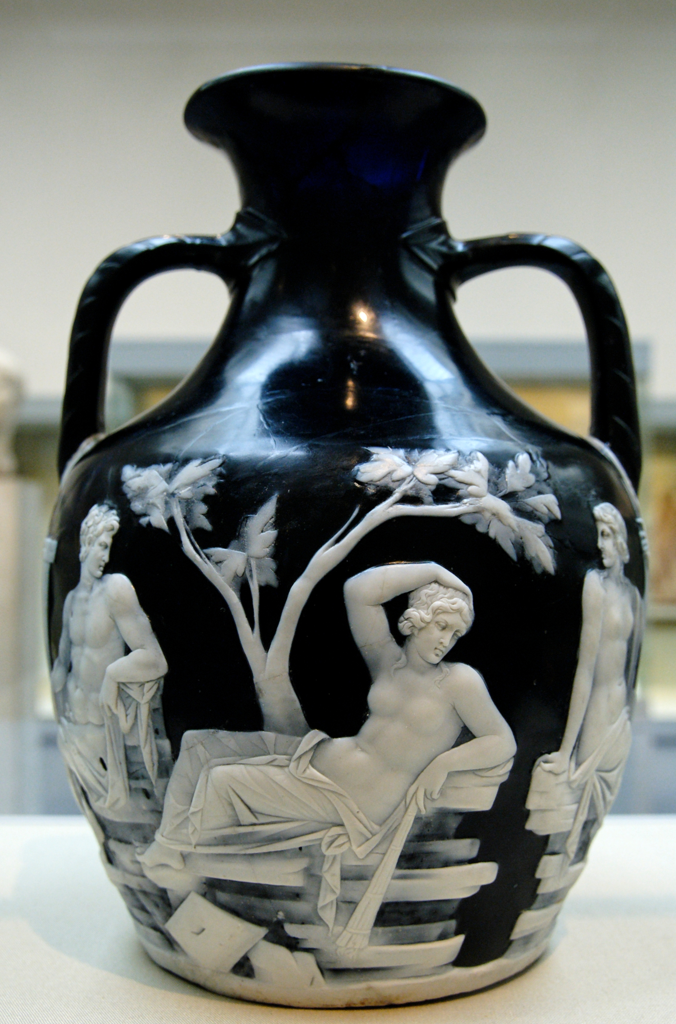 Side B of the Portland Vase. Cameo-glass, probably made in Italy ca. 5-25 AD.